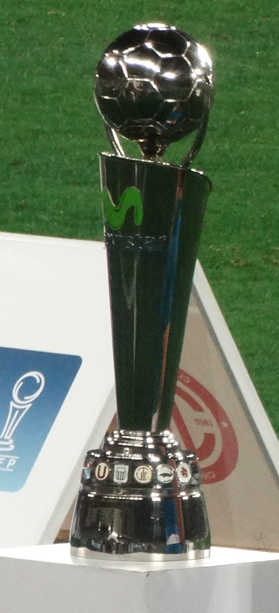 Descentralizado Trophy